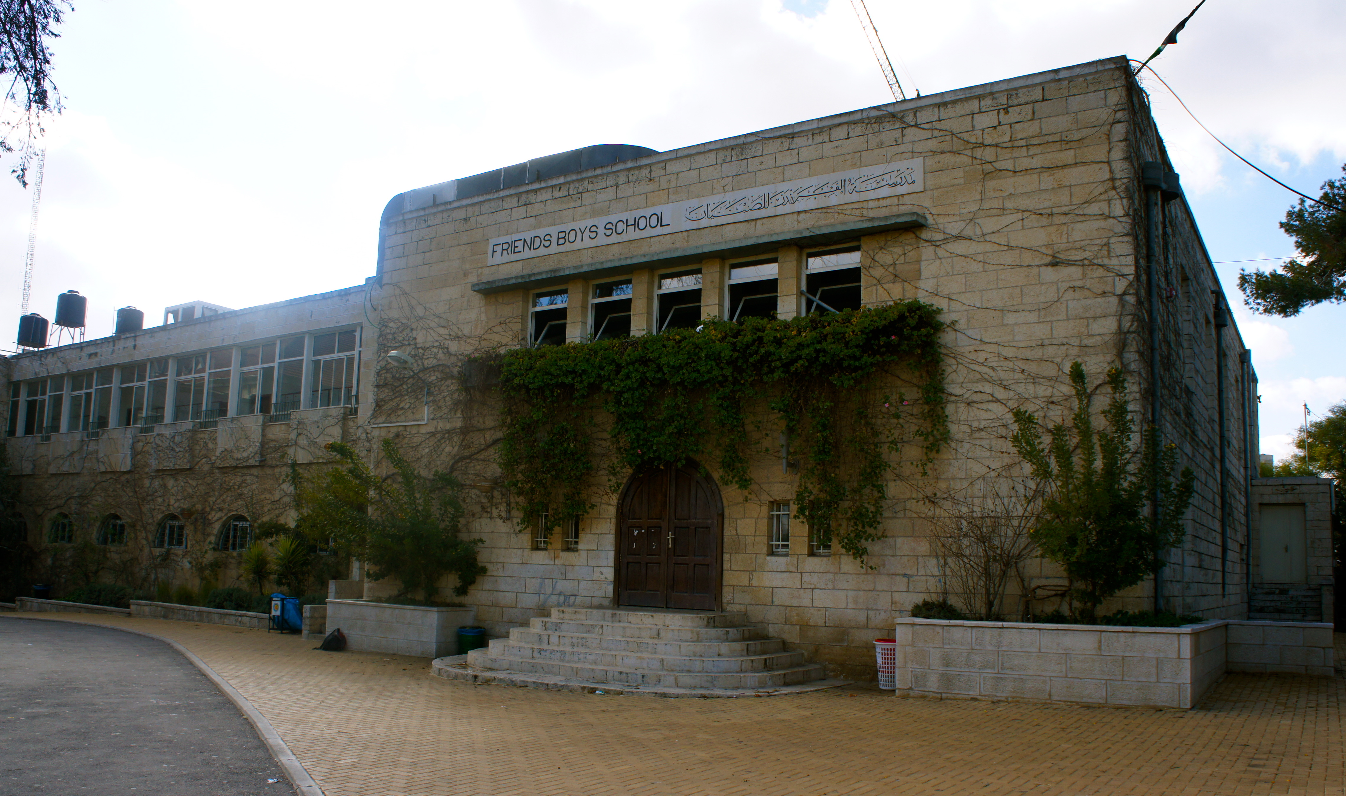 Ramallah Friends Schools